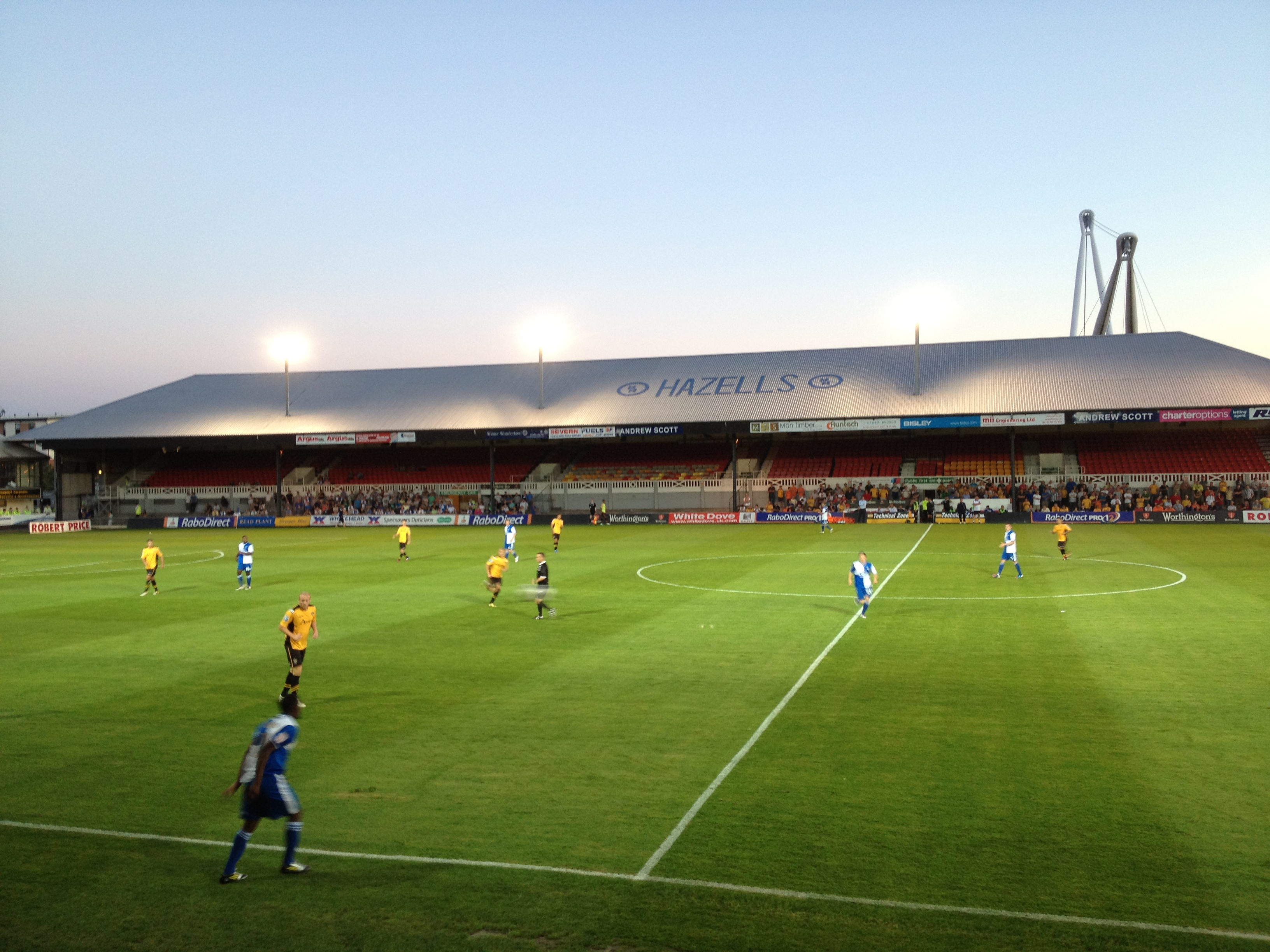 West Stand, Rodney Parade, Newport. July 2012.